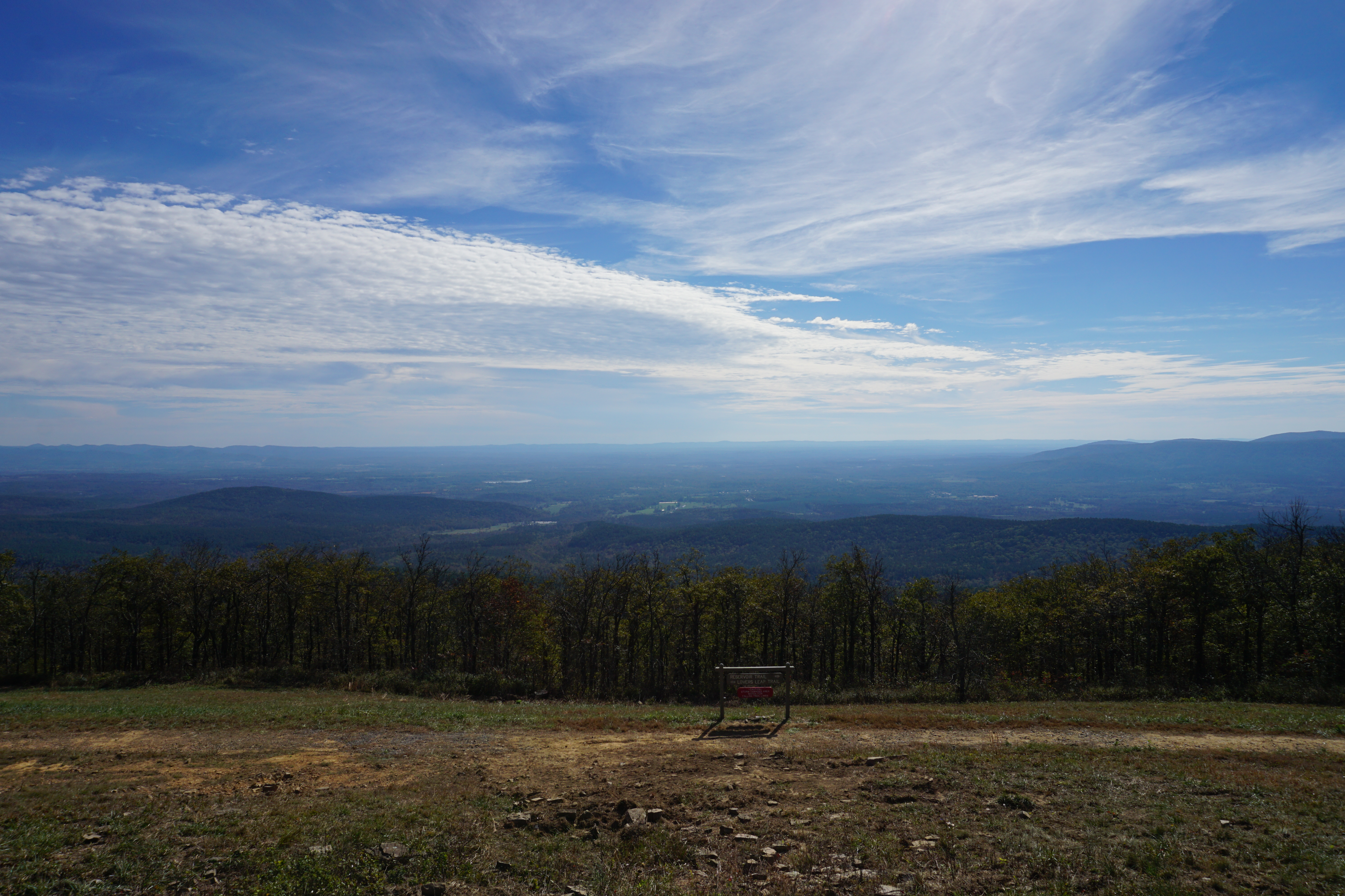 A view from Queen Wilhelmina State Park on the Talimena National Scenic Byway in Arkansas (United States).